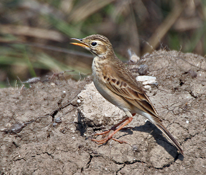 Paddyfield Pipit (Anthus rufulus) at Sultanpur National Park in Gurgaon District of Haryana, India.